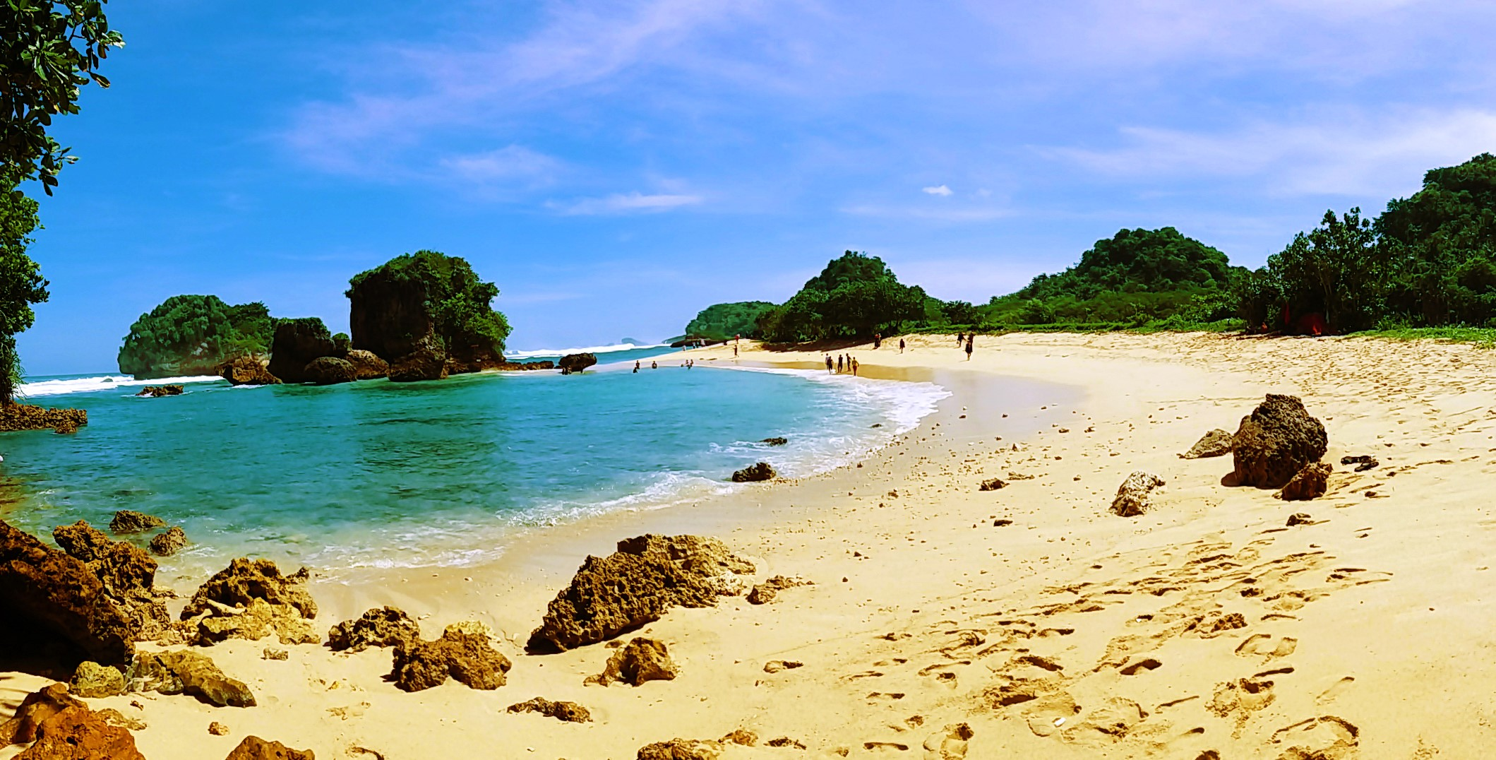 Watu Leter Beach, Malang, East Java